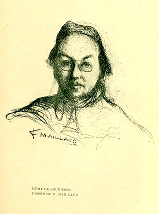 Rémy de Gourmont